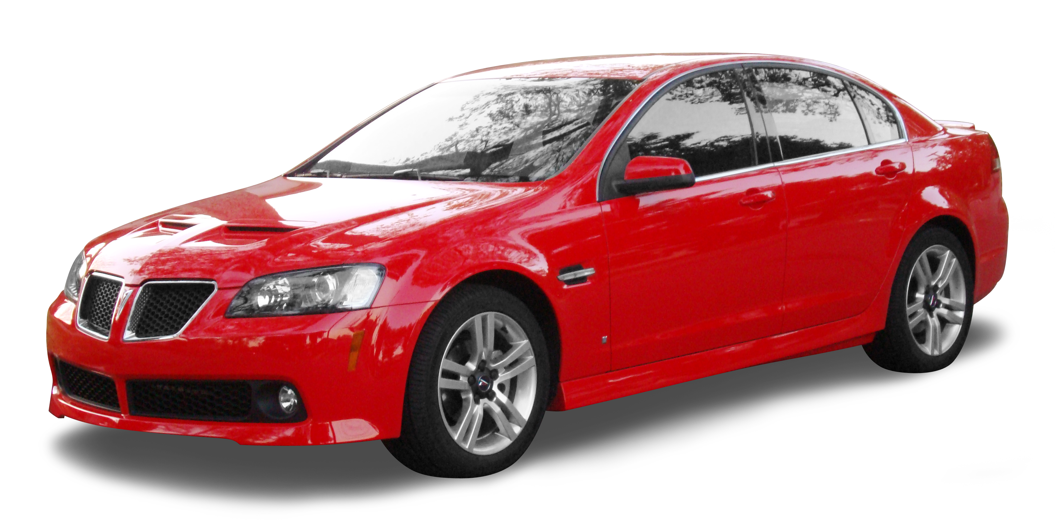 2008 Pontiac G8. Camera used was a Sony Cyber-shot DSC-W200.